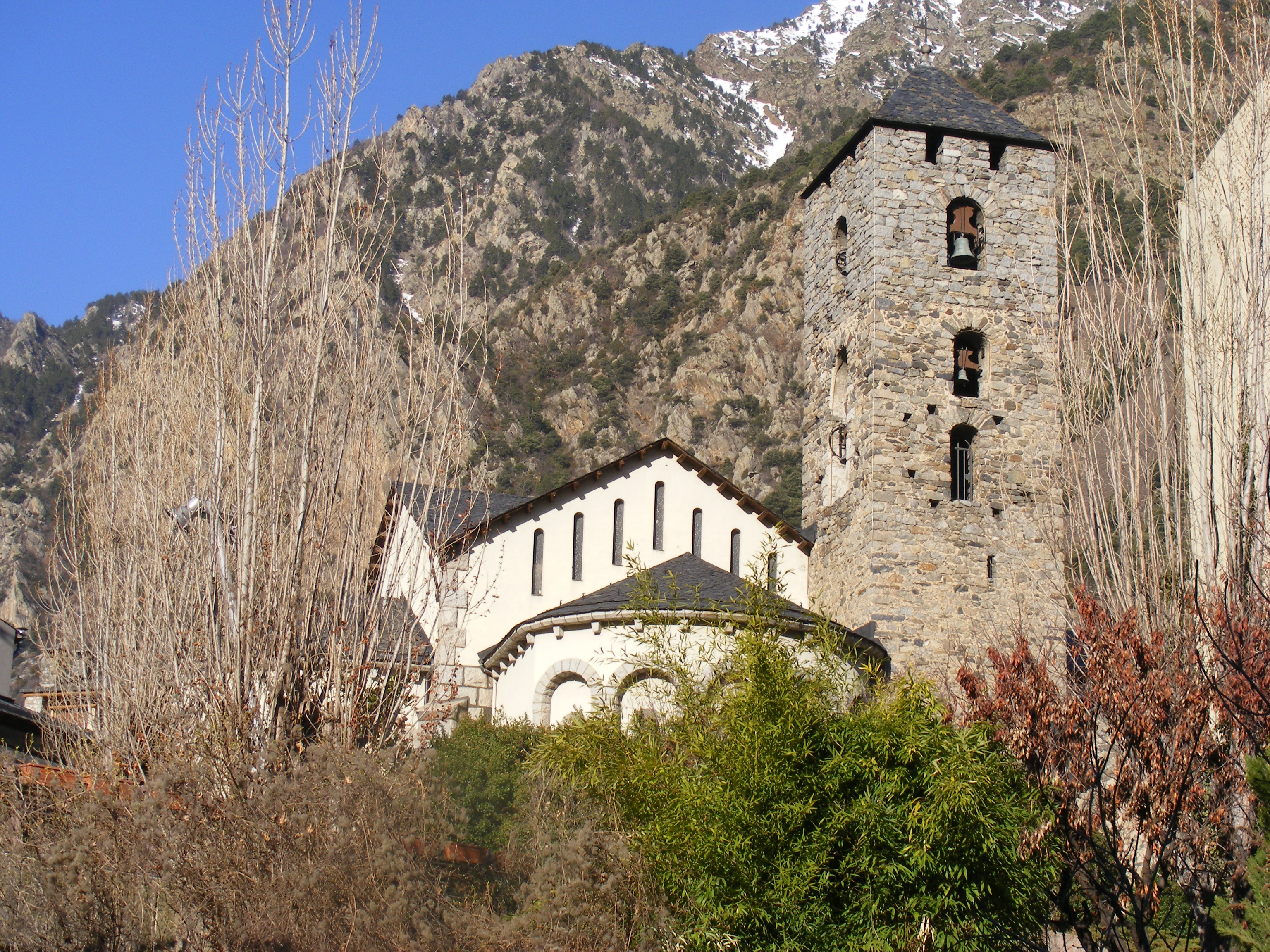 Sant Esteve church, Andorra la Vella